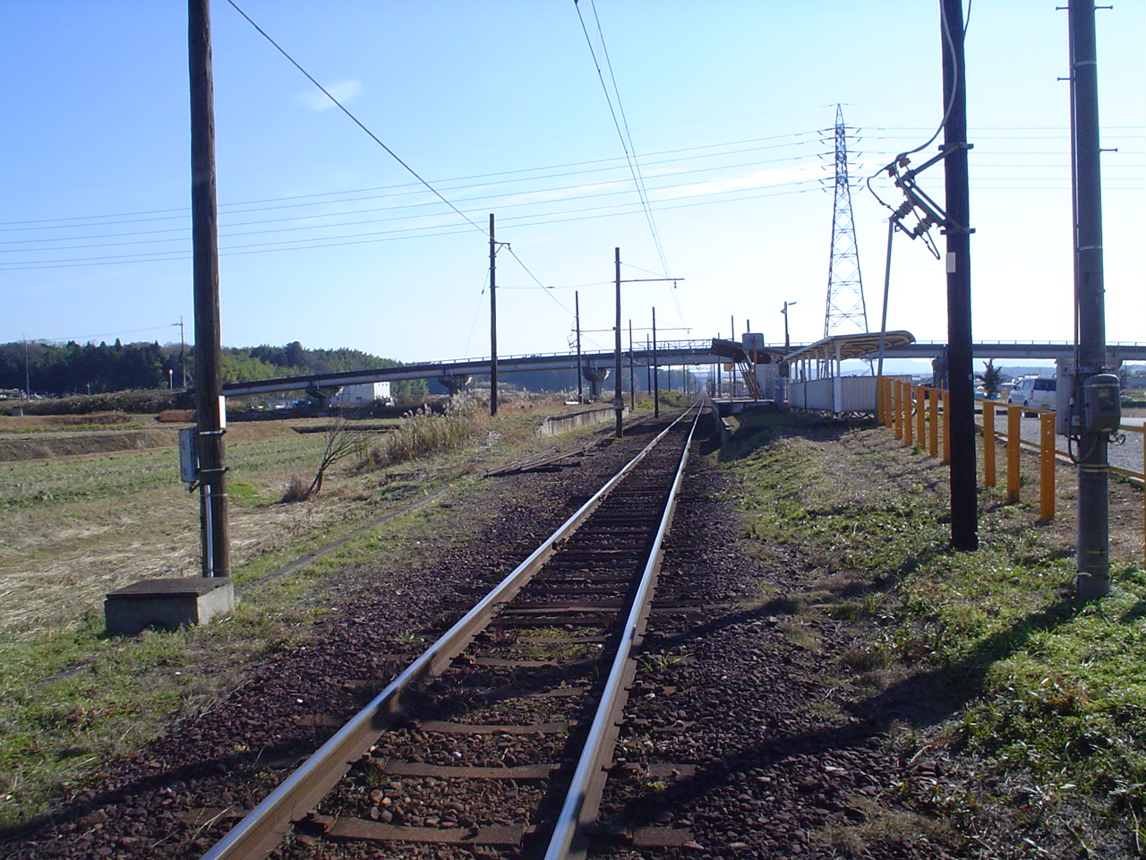 Asahino Station in shiga pref, japan